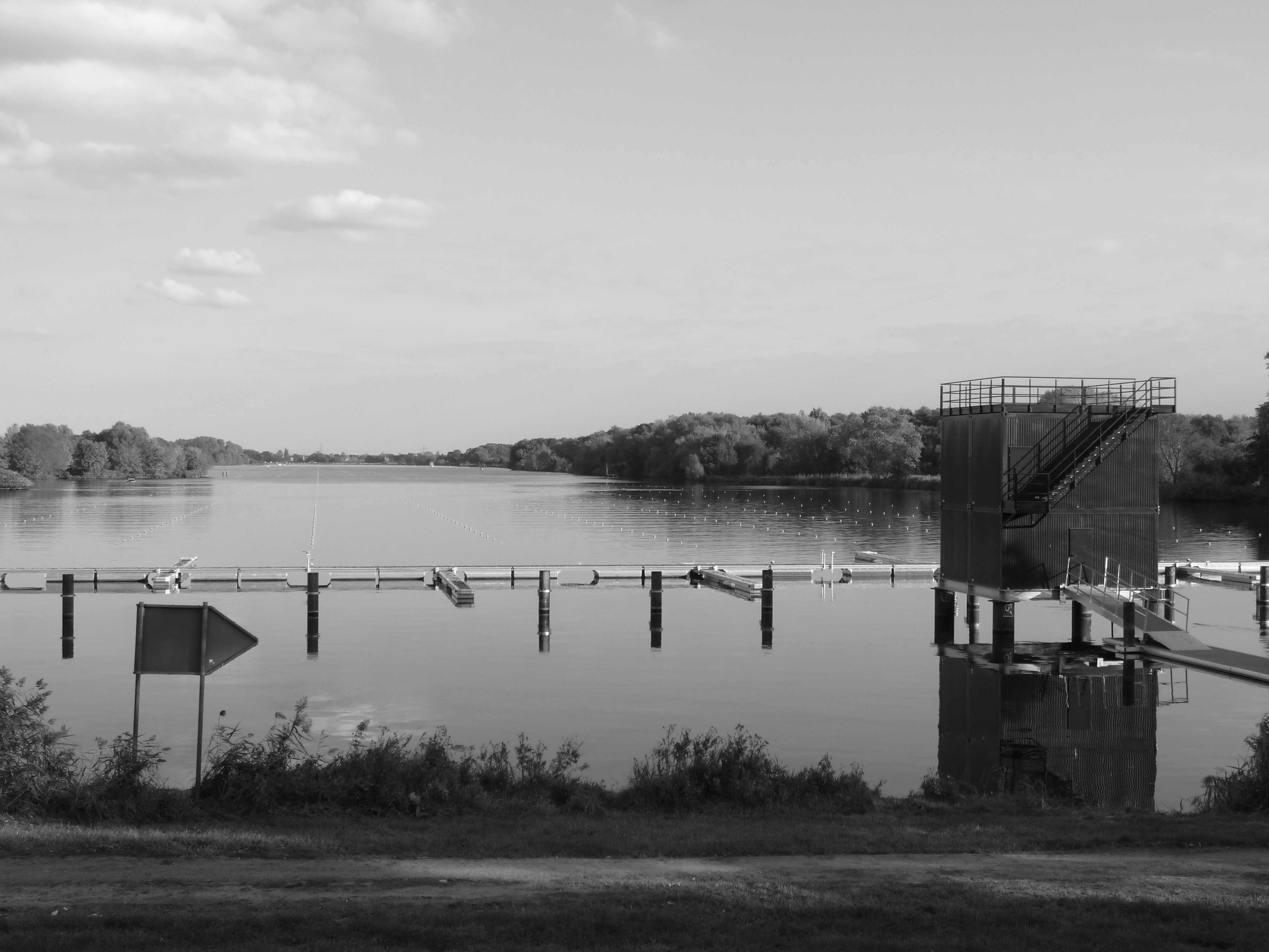 View over the regatta area from the take-off-area.